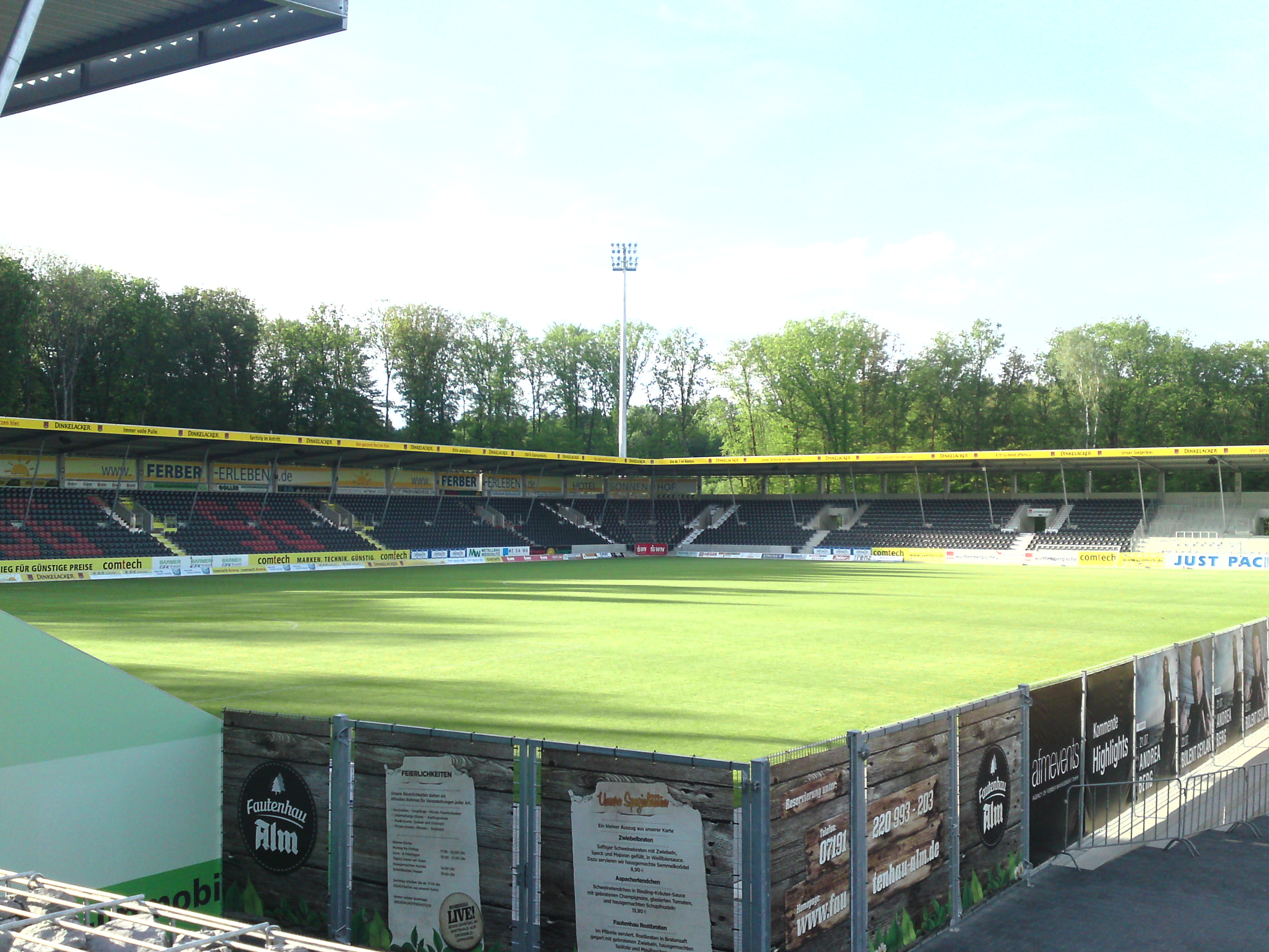 Comtech Arena in Großaspach, home ground SG Sonnenhof Großaspach